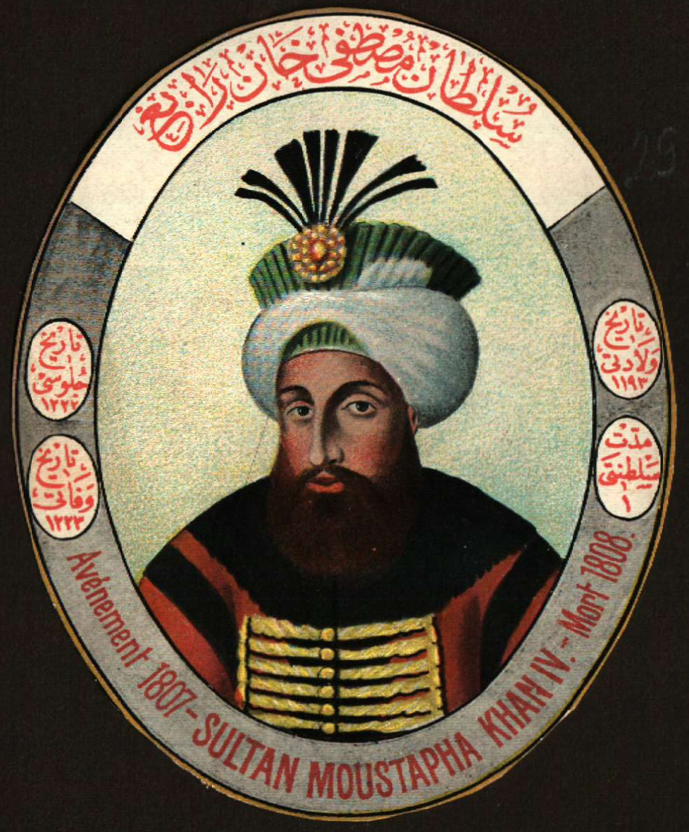 Mustafa IV